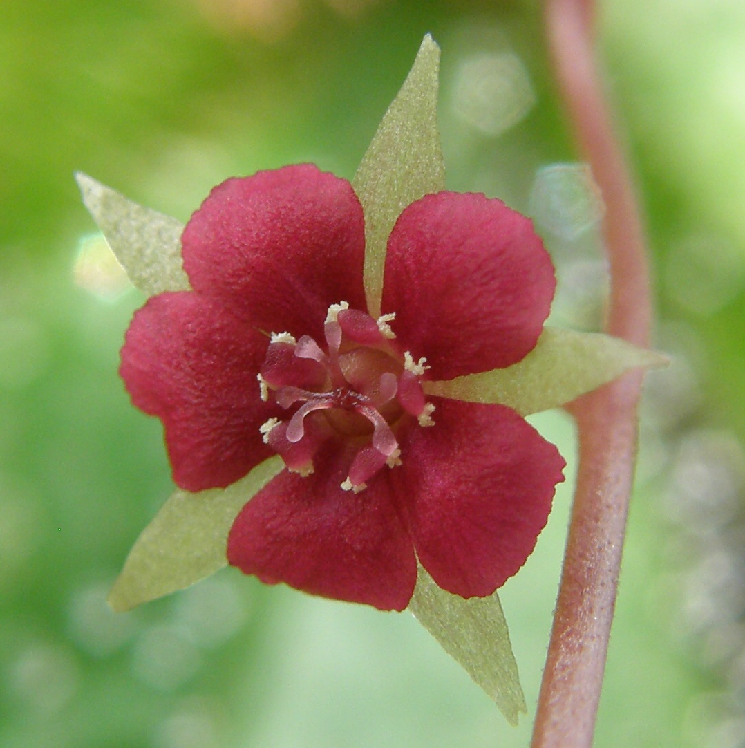 tentacles of Drosera prolifera